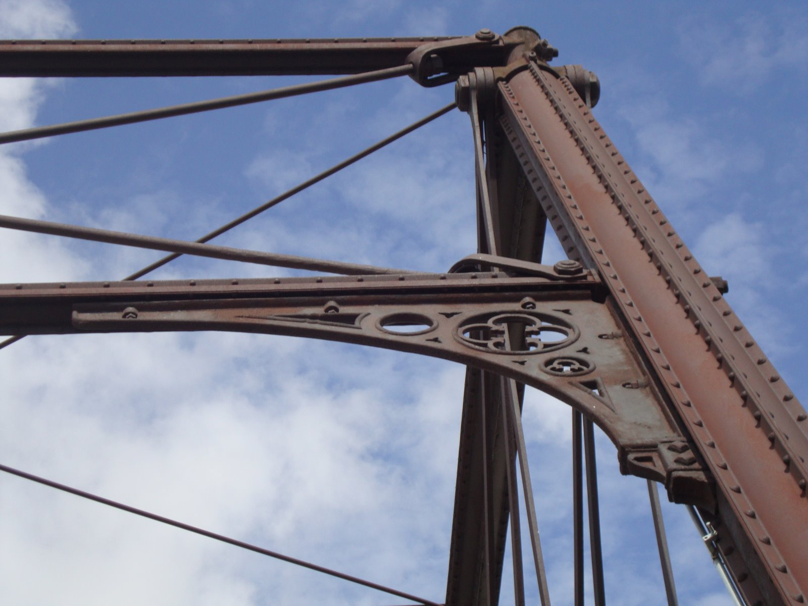 A close-up view of ornamented cast iron joint blocks providing the bracing in an 1861 Whipple truss bridge. Hays Street Bridge, San Antonio, Texas, USA.